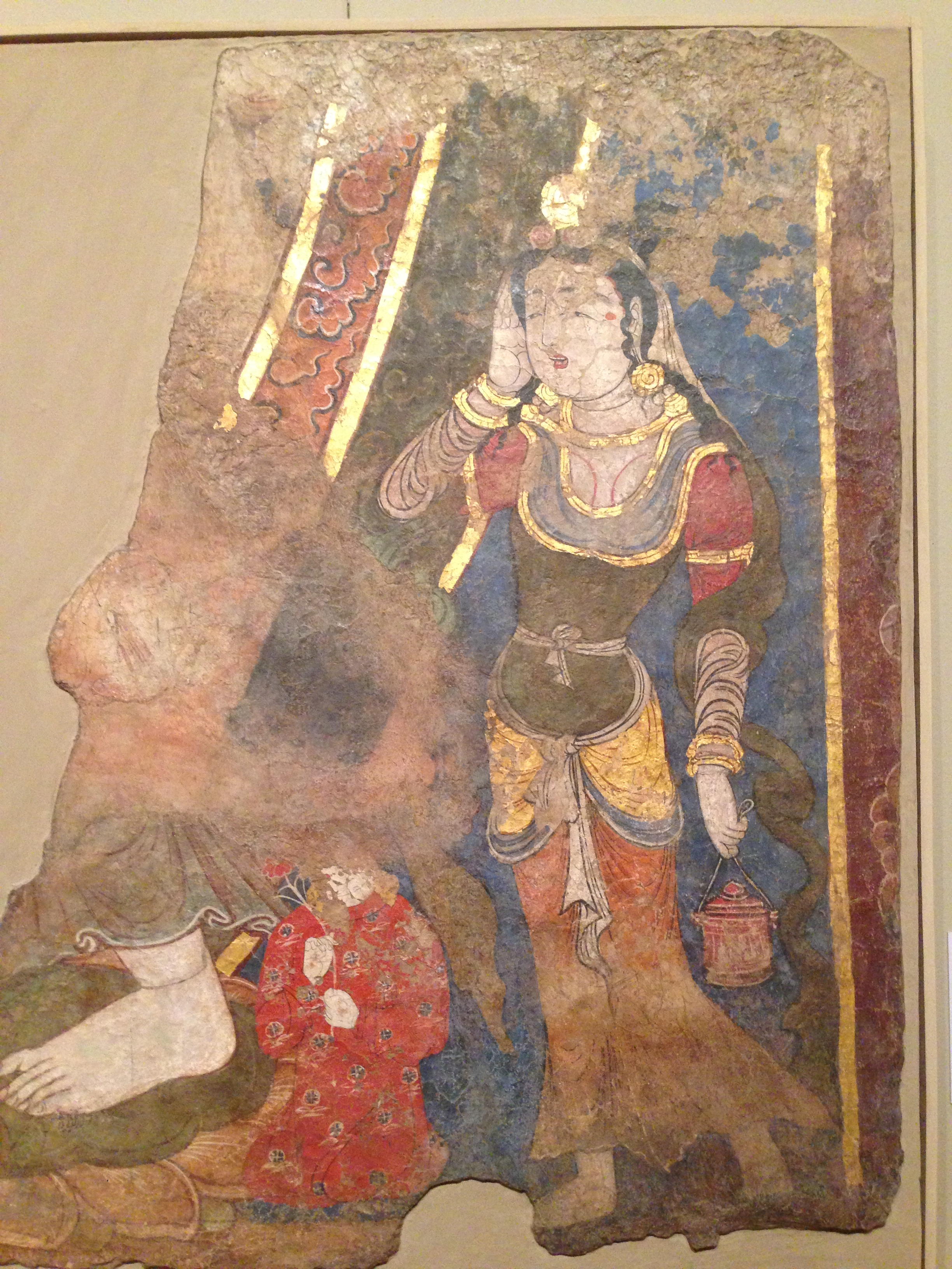 Mural depicting a weeping lady with a funerary urn